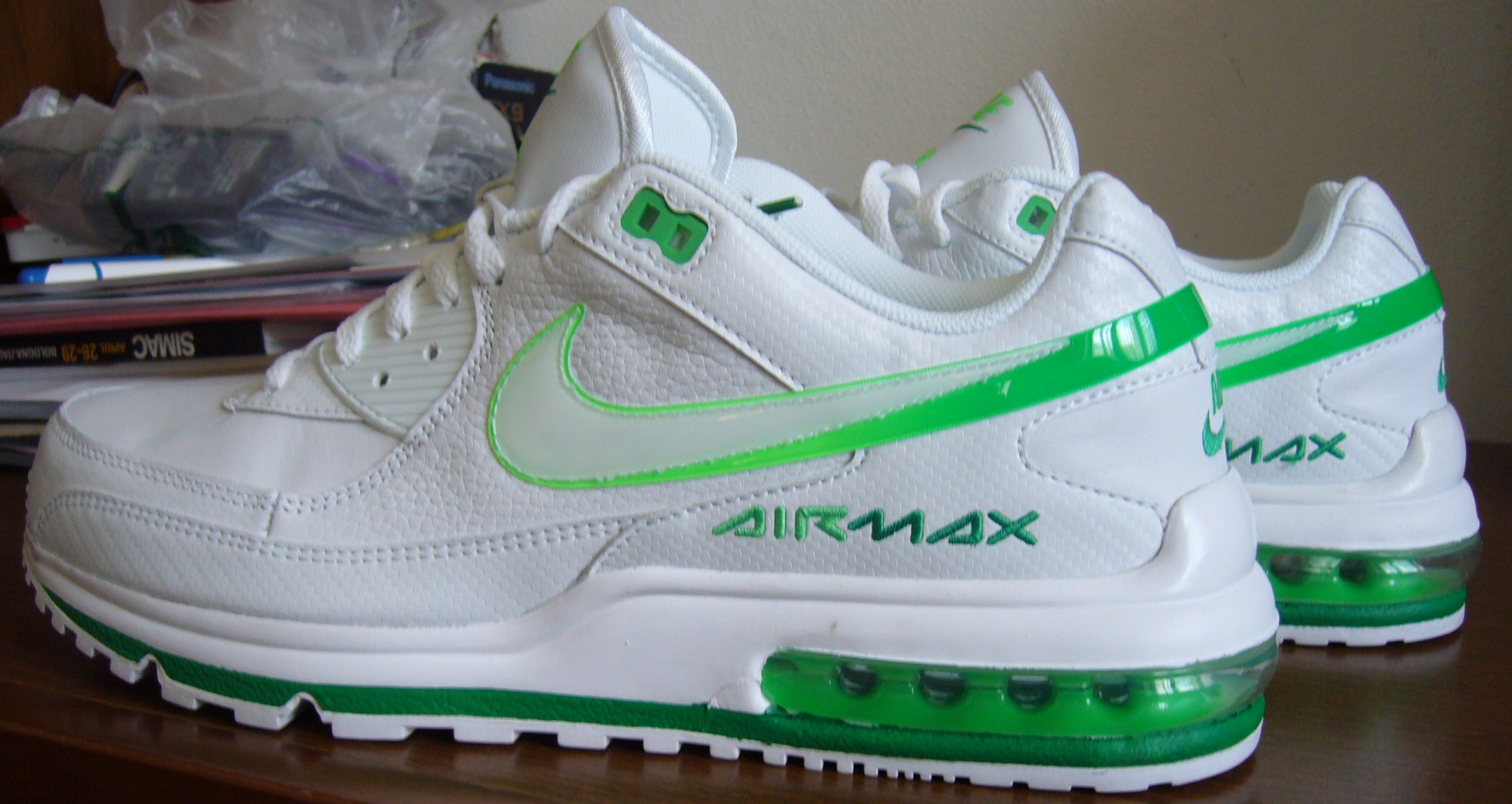 Nike Air Max LTD 2